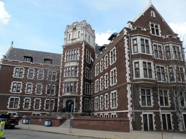 Picture of West Hall of the Community College of Allegheny County (CCAC) located at 826 Ridge Avenue in the Allegheny West neighborhood of Pittsburgh, Pennsylvania, on March 20, 2010. Built in 1911 and 1912, architect Thomas Hannah, the building is on the List of Pittsburgh Landmarks recognized by the Pittsburgh History and Landmarks Foundation (PHLF).